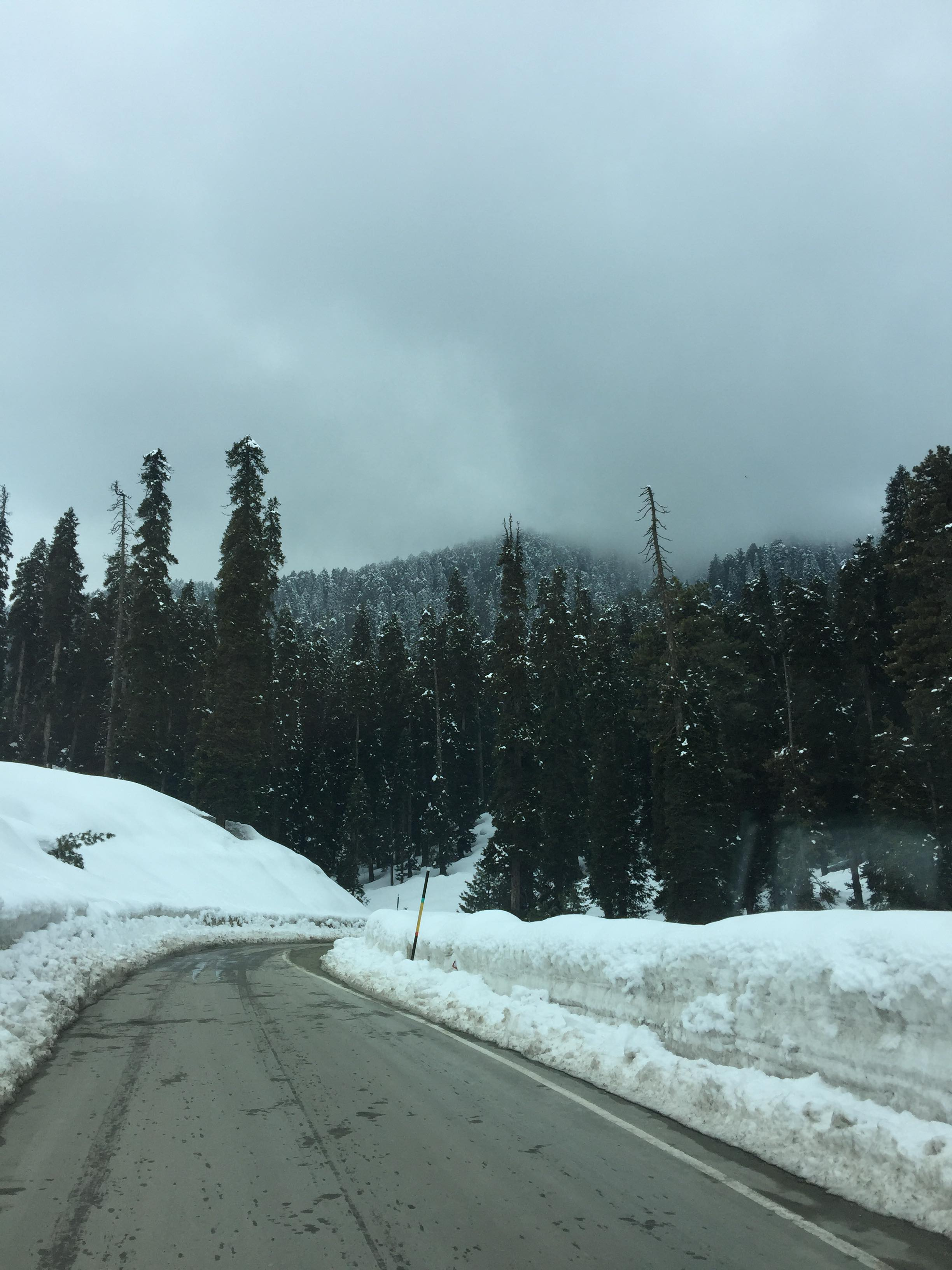 It's a picture on way to Gulmarg by Road.